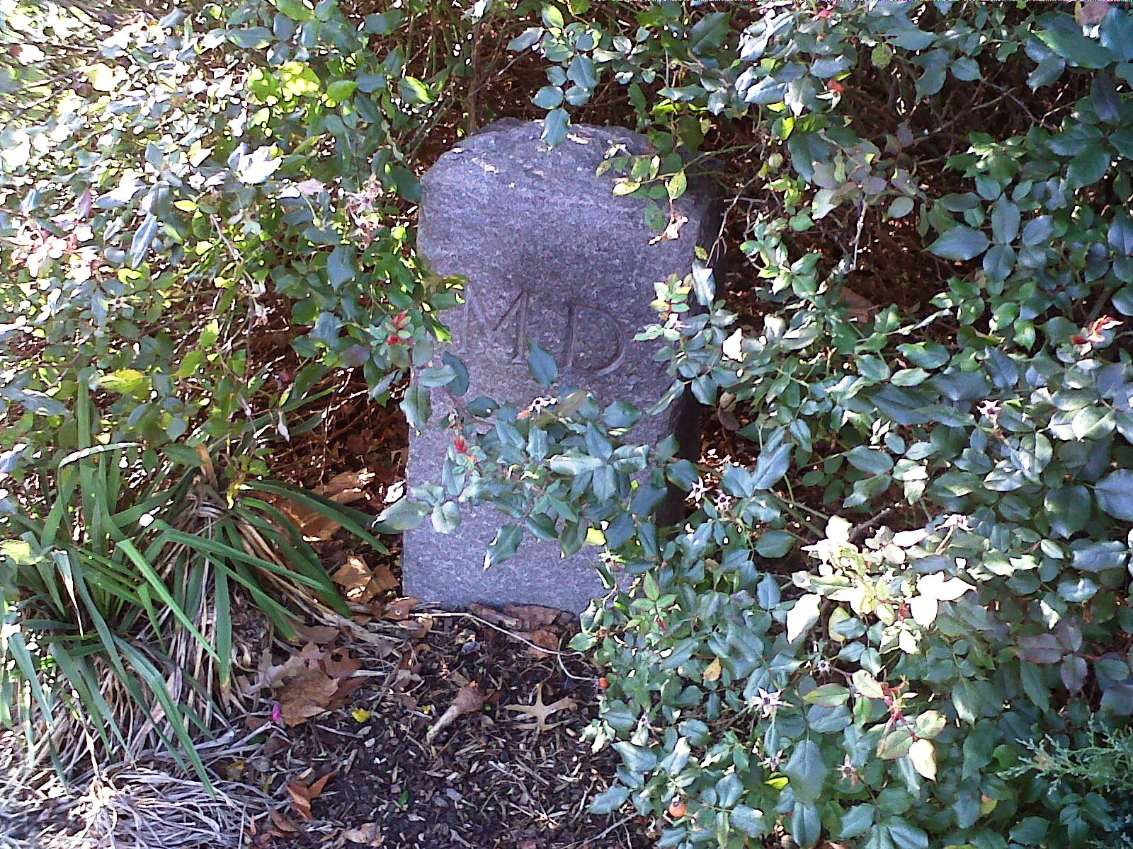 A boundary marker between the District of Columbia and the state of Maryland. It is surrounded by foliage in a traffic circle near downtown Silver Spring at 16th St., Eastern Ave, Colesville Rd. and N. Portal Dr. It is not one of the original bounday stones from 1792.